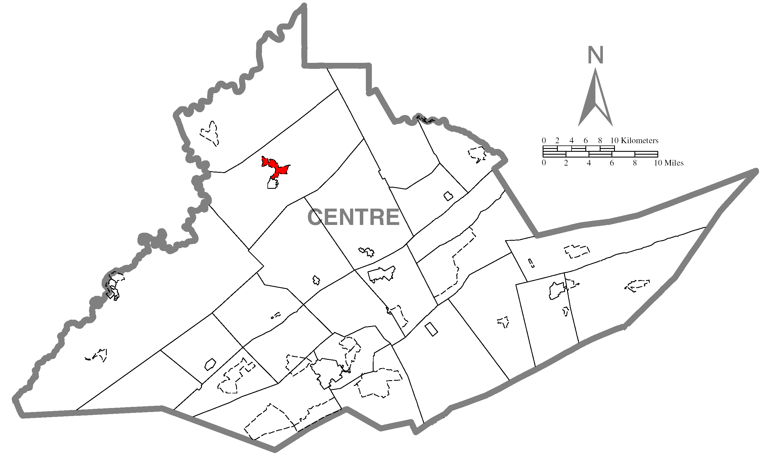 A map of Centre County showing Clarence, Pennsylvania (alternate) highlighted on the map.